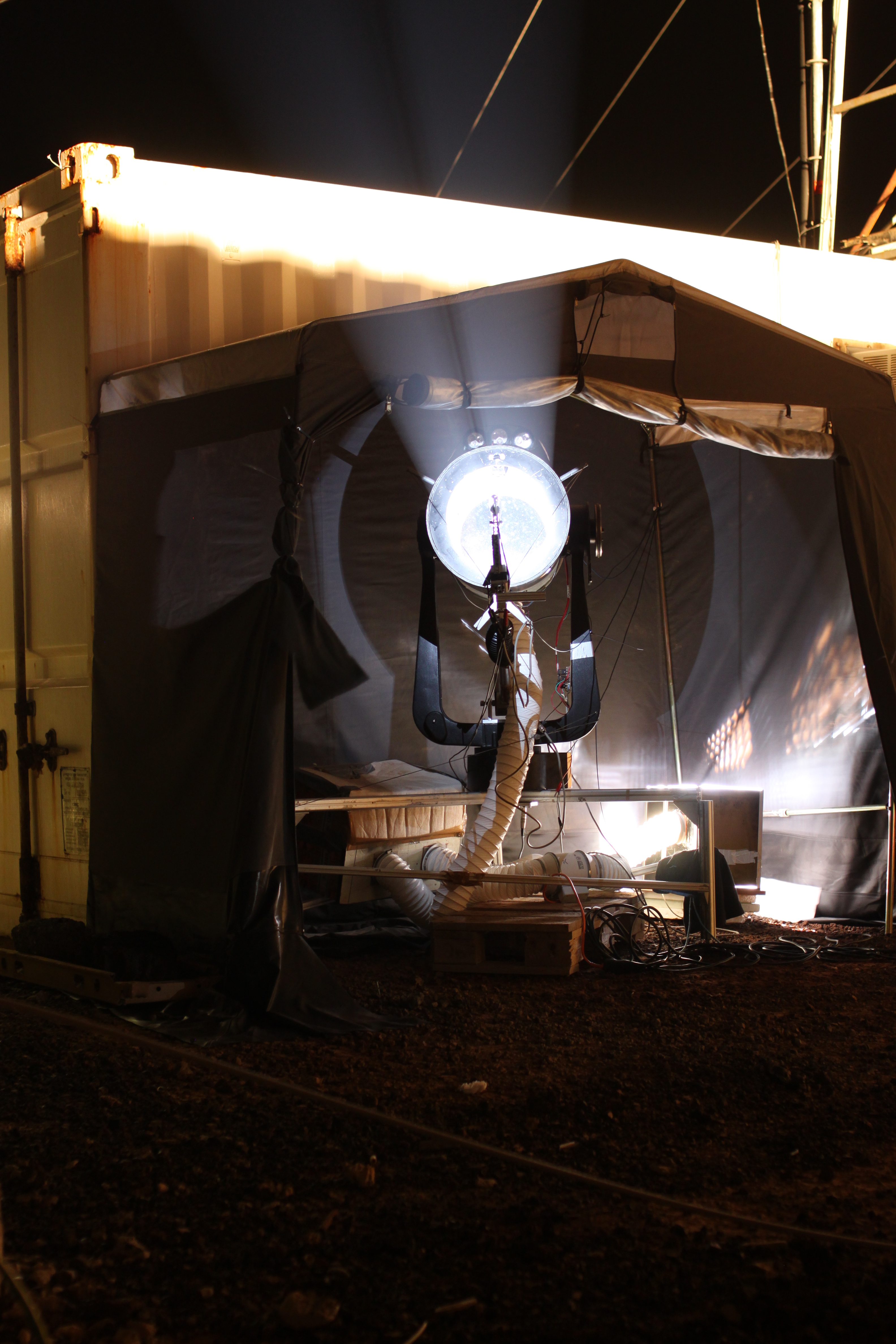 Telescope of Longpath DOAS Measurements on Cape Verde Atmospheric Observatory, Sao Vicente, Cape Verde, during HaLoCaVe Campaign 2010